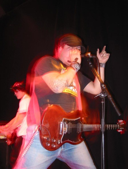 Dave Zegarac of the Brat Attack performing in Winnipeg, Manitoba